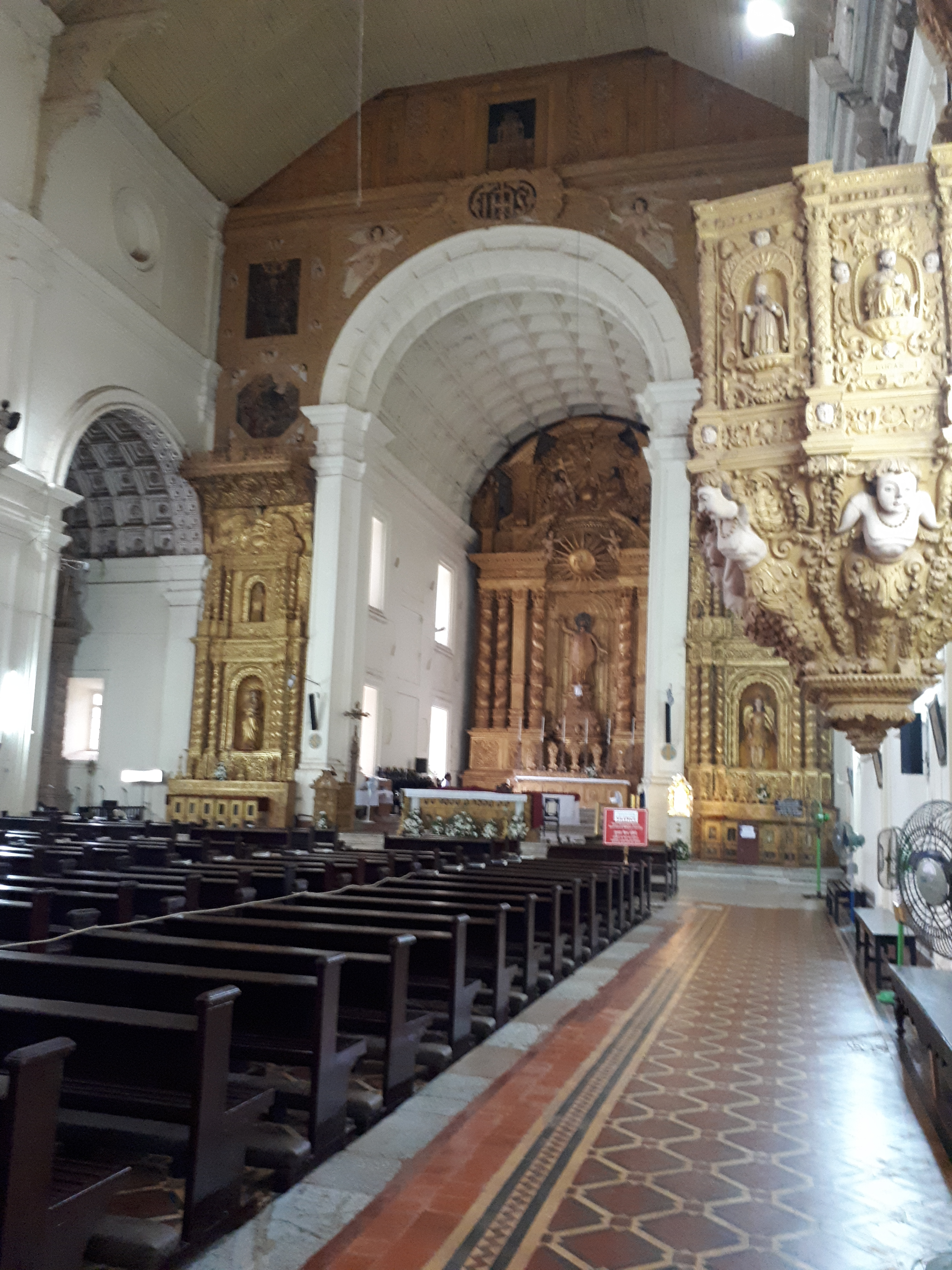 Upon entering, we can witness beautiful woodwork and carvings which adds further attraction to the history of the location. Clean and beautiful.